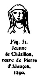 Joan of Châtillon